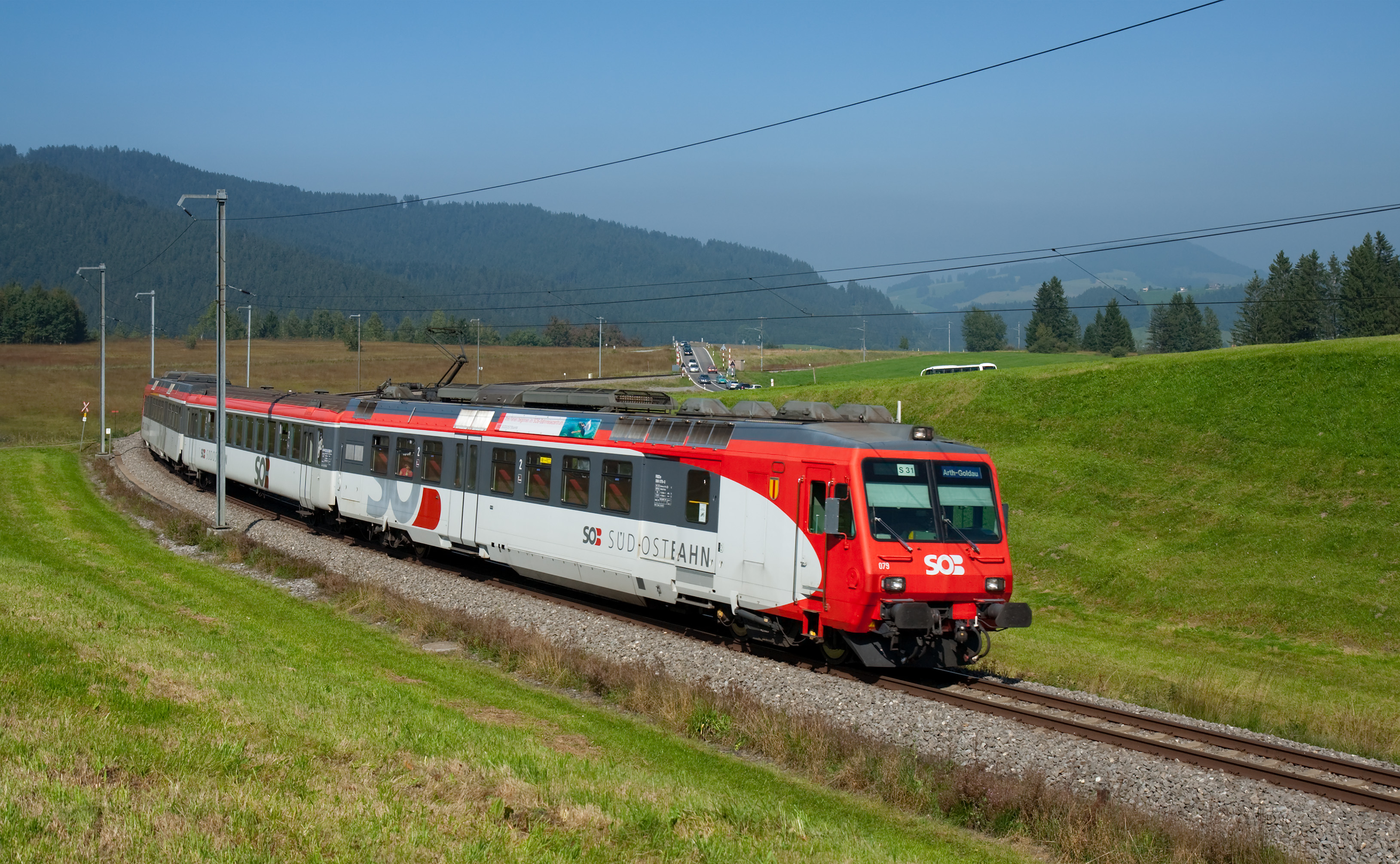 SOB push-pull train type NPZ ("Neuer PendelZug" or "New Push-Pull Train"), similar to the SBB variety, between Biberbrugg and Altmatt